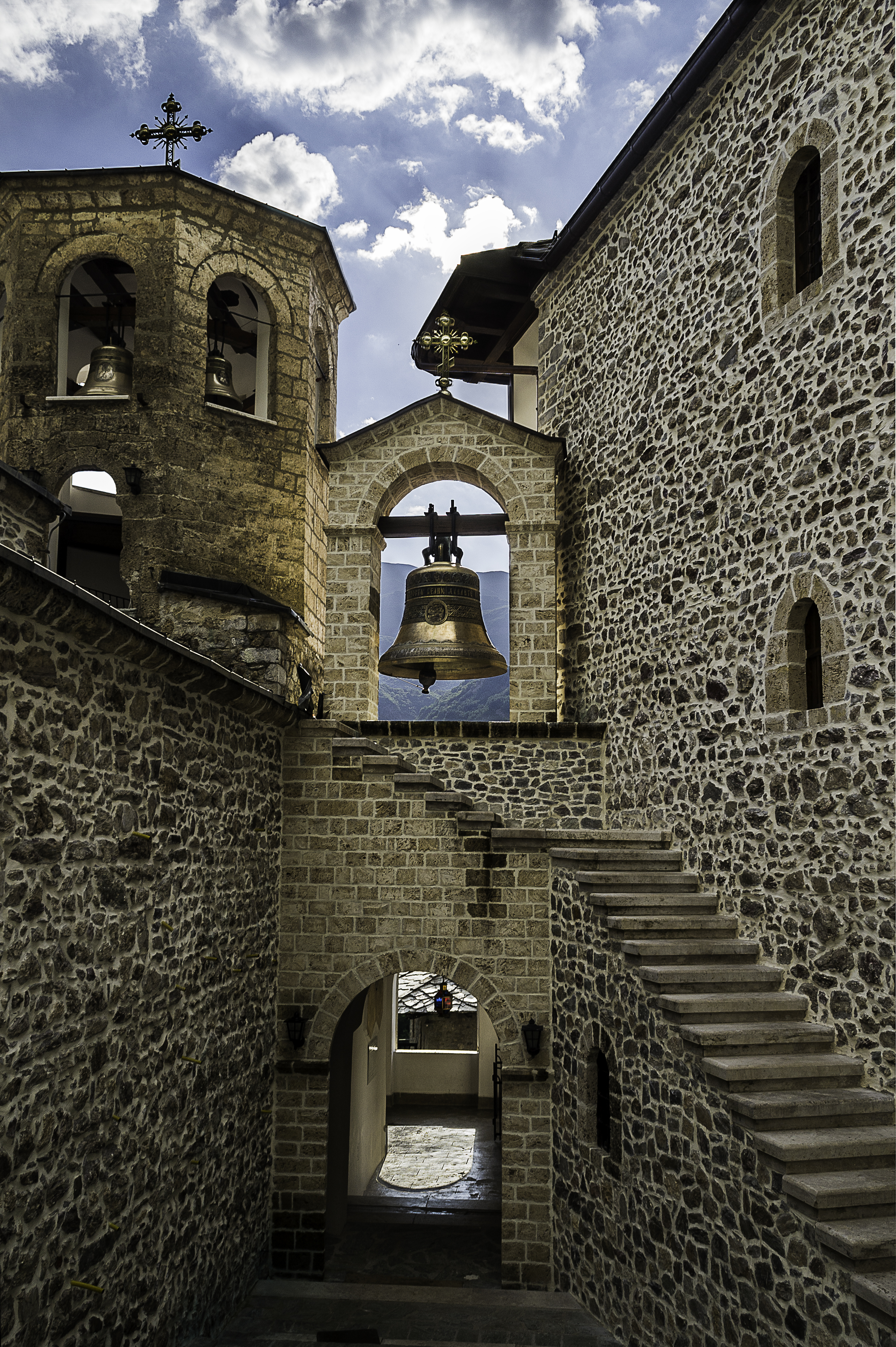 A bell tower in the Saint Jovan Bigorski Monastery, Debar region, Macedonia.